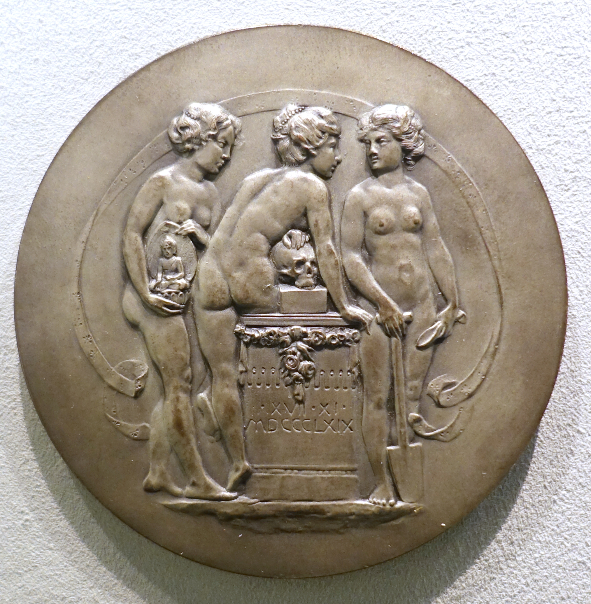 Exhibit in the Bode-Museum, Berlin, Germany. This work is in the public domain because the artist died more than 70 years ago.